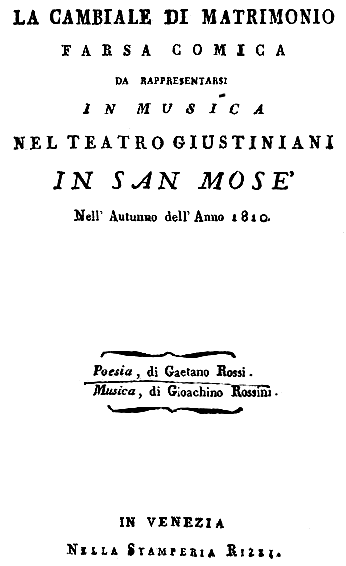 Gioachino Rossini - La cambiale di matrimonio - titlepage of the libretto - Venice 1810